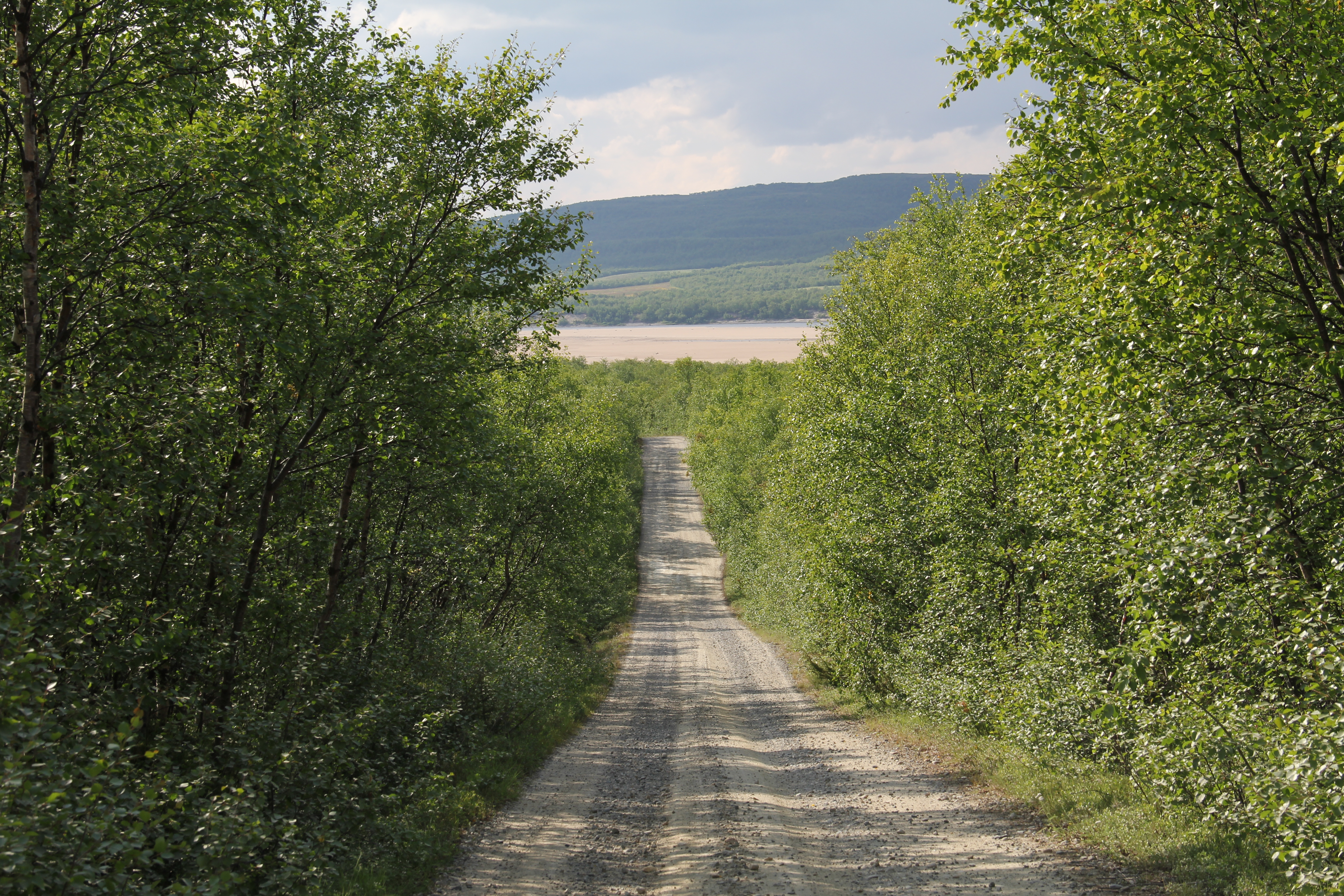 Alakönkääntie , also Nivajoki–Alajalve museum road, Nuorgam, Utsjoki, Finland. - A view down the road.